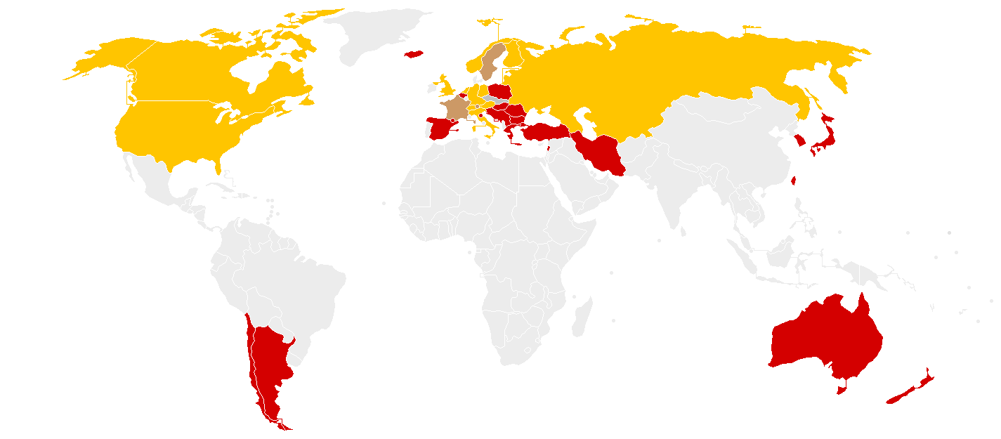 Countries with at least one gold medal Countries with at least one silver medal Countries with at least one bronze medal Countries that didn't get any medal Countries that did not participate